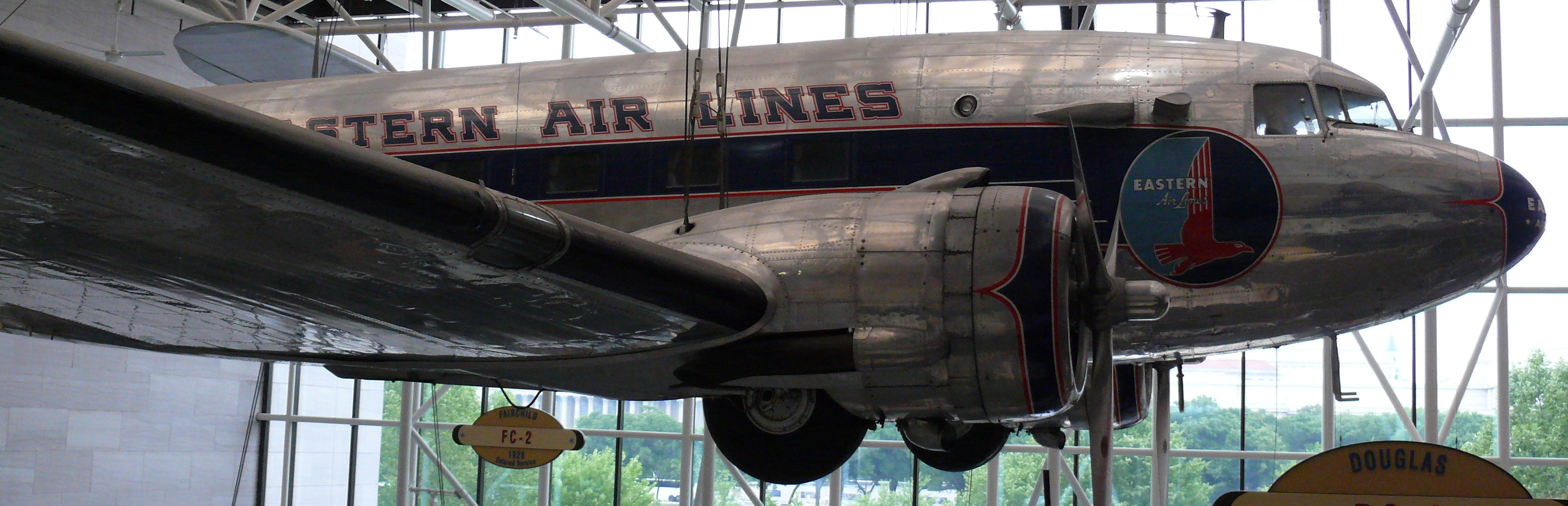 DC3 in the National Air and Space Museum, Washington DC. The Douglas DC-3 is an American fixed-wing, propeller-driven aircraft whose speed and range revolutionized air transport in the 1930s and 1940s. Because of its lasting impact on the airline industry and World War II, it is generally regarded as one of the most significant transport aircraft ever made. The airplane on display, an Eastern Air Lines Douglas DC-3-201 (N18124 (cn 2000) manufactured 1936) flew more than 56,700 hours. Its last commercial flight was on October 12, 1952, when it flew from San Salvador to Miami. It was subsequently presented to the Museum by Eastern's president, Edward V. Rickenbacker.